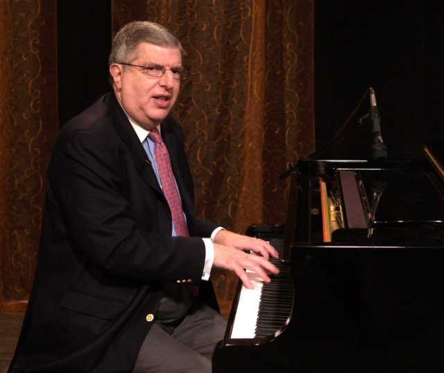 Multi-award-winning composer/performer Marvin Hamlisch Please acknowledge "Phil Konstantin" as the creator of this photograph.